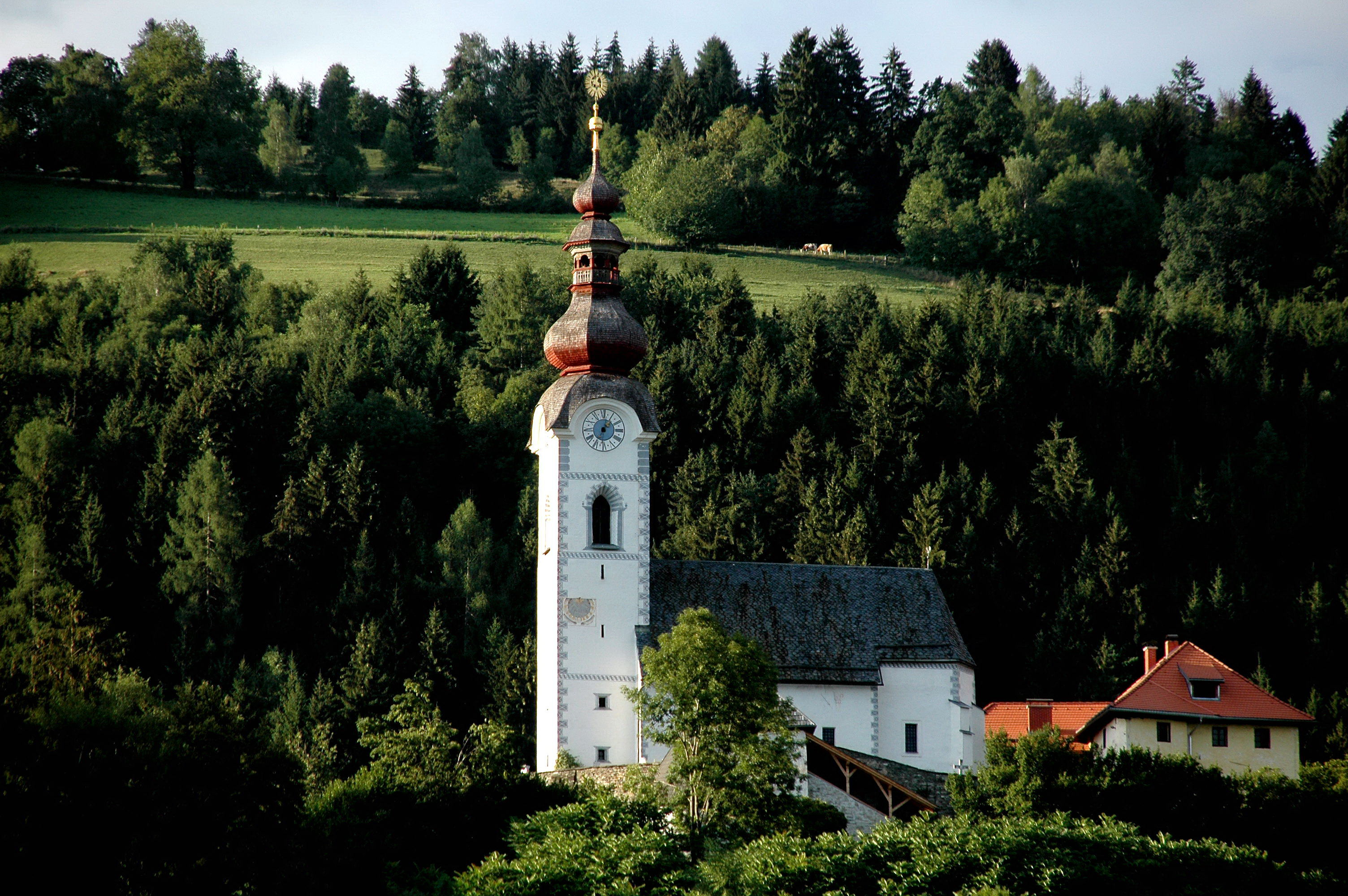 Parish church Saint George and cemetery at Friedlach, municipality Glanegg, district Feldkirchen, Carinthia, Austria, EU